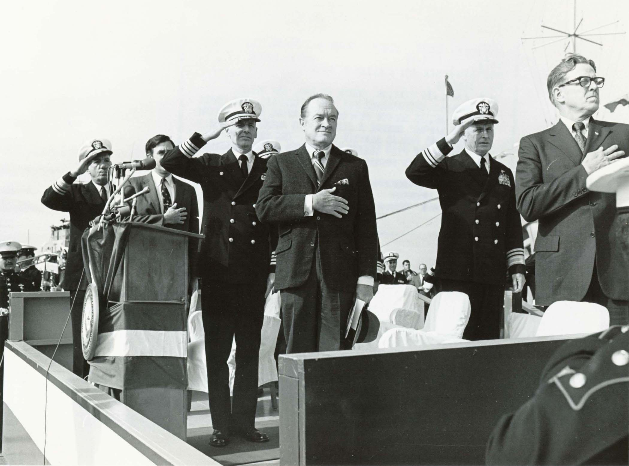 Naval Air Station, North Island, San Diego, Calif. (Jan. 31, 1971) -- Entertainer Bob Hope (center) and other guests salute while playing the, “Star Spangled Banner,” during a ceremony to award Bob Hope the Distinguished Public Service Award. The ceremony was held aboard the docked guided missile light cruiser USS Providence (CLG 6). U.S. Navy file photo. (RELEASED)